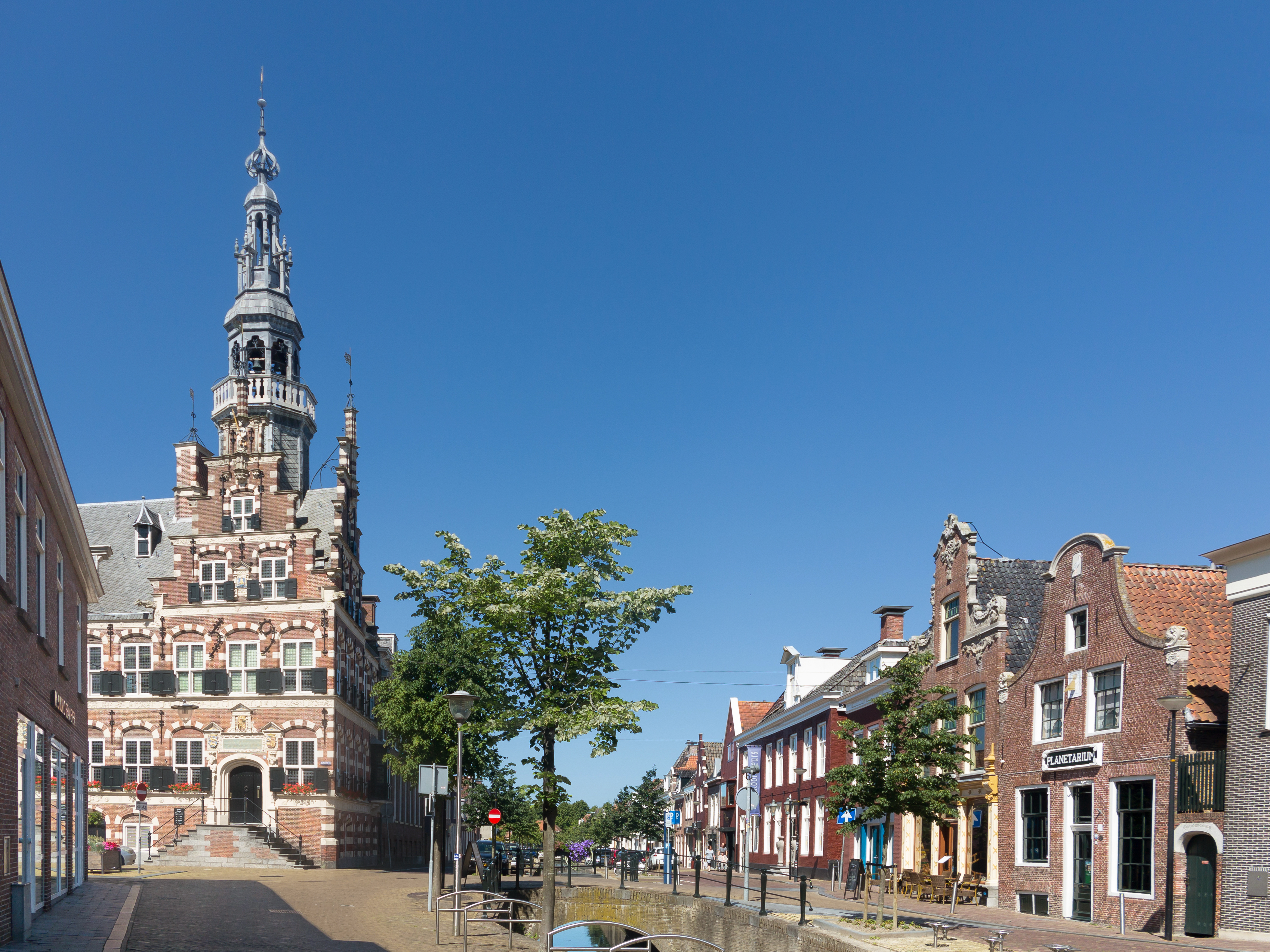 Franeker, townhall and the planetarium